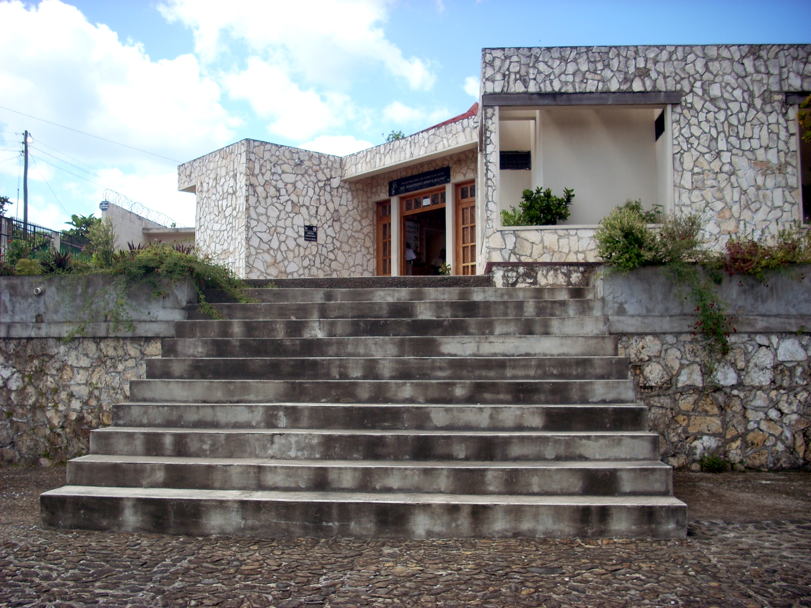 Entrance of the Museo Regional del Sureste del Petén — in Dolores, El Petén department, northern Guatemala.